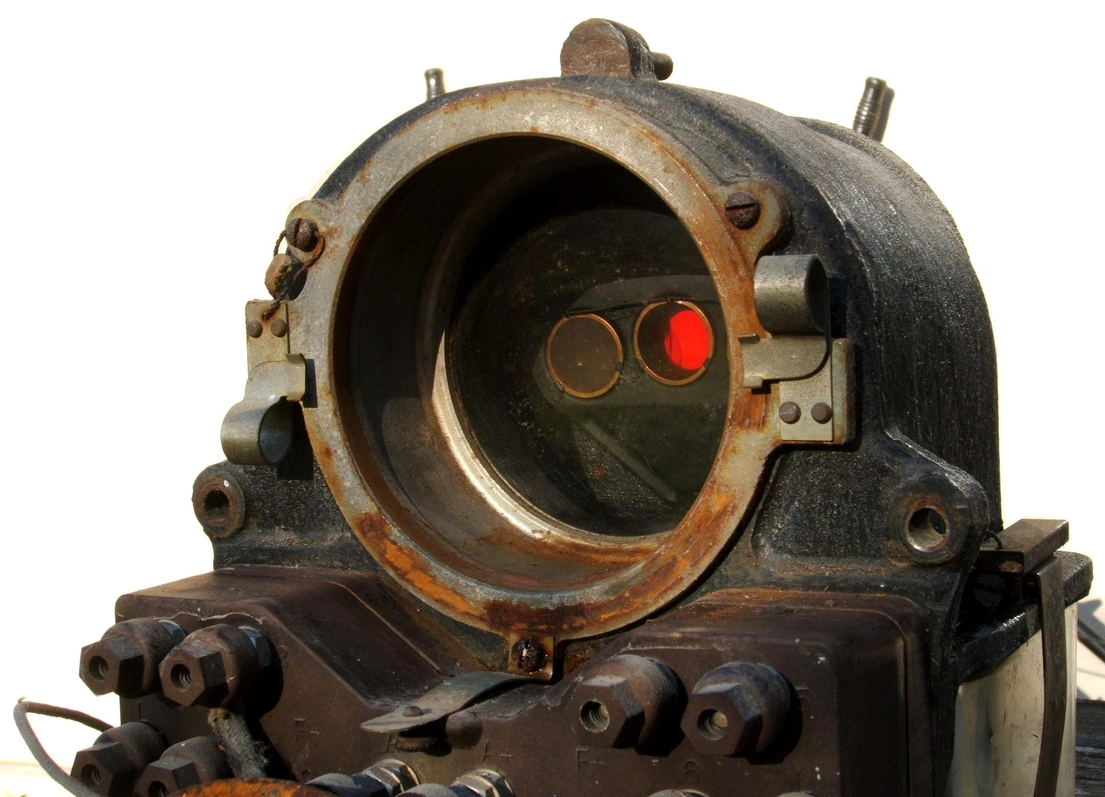 Mechanism of a Union Switch and Signal style H-H2 signal with an inspection date of 6-10-44. The lamp and reflector assembly has been removed from the back of the mechanism, exposing the sector and the colored roundels inside. Light shining in through the front lens of the mechanism illuminates the red roundel. The red roundel is in the center and is the one displayed when no power is applied. Applying power will swing the sector either left or right to illuminate the yellow or green roundels. This mechanism was recovered from a signal along the Hoover Nature Trail, formerly the Rock Island Railroad, in West Branch, Iowa.